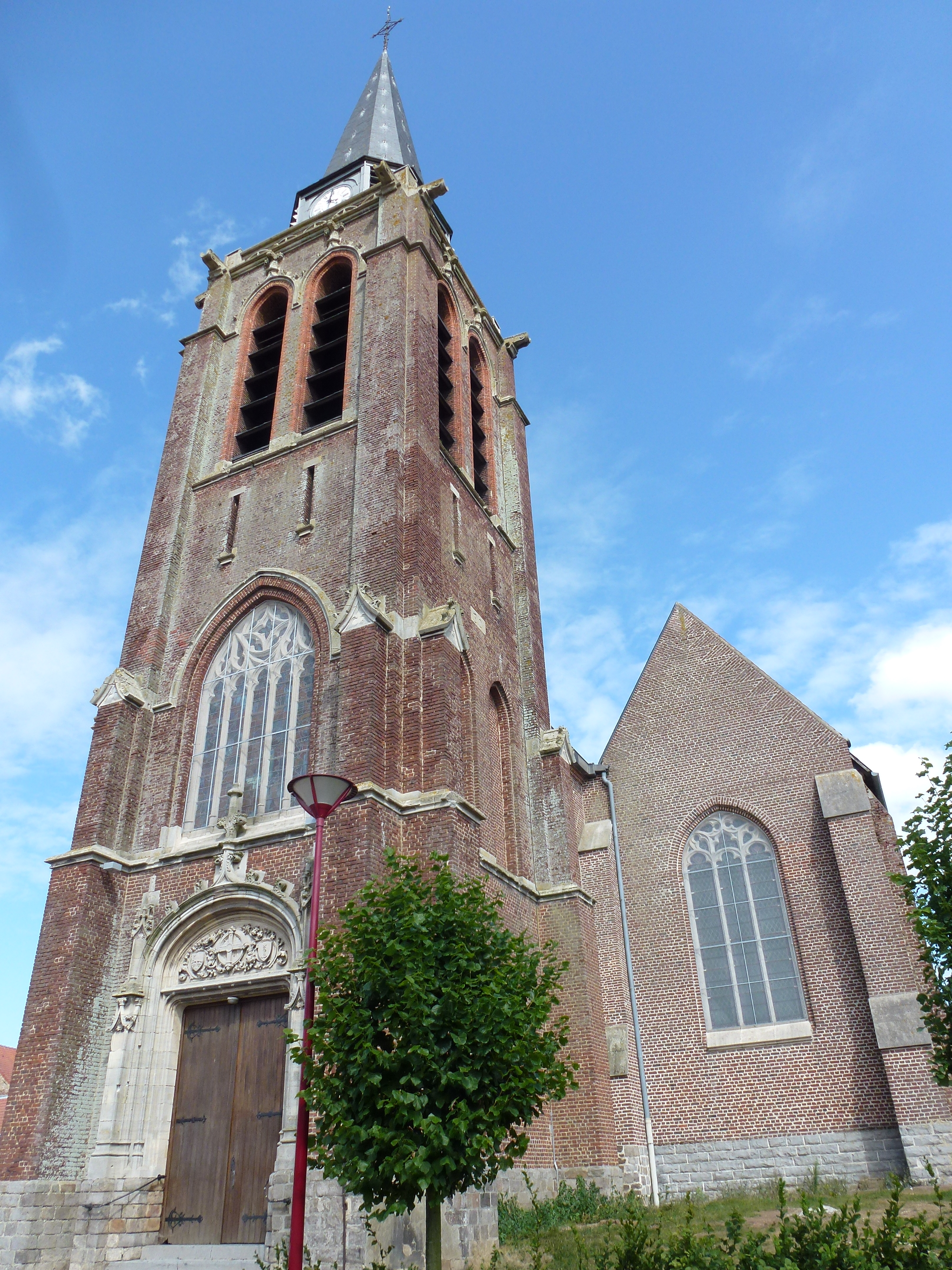 Flêtre (Nord, Fr) église